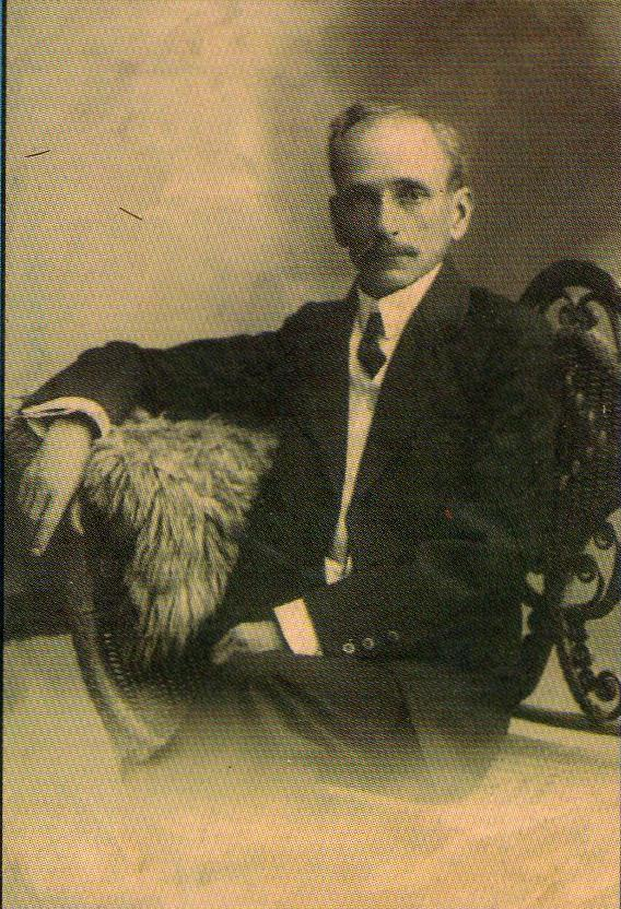 Photo of brazilian writer Pápi Júnior (public domain).